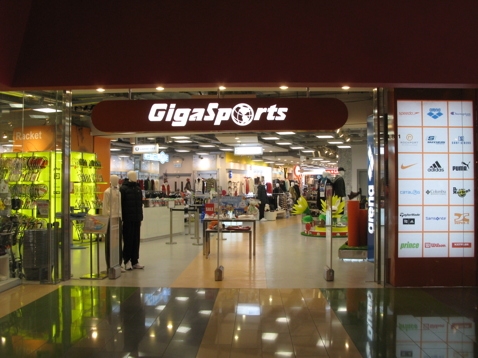 MegaBox Gigasports Store